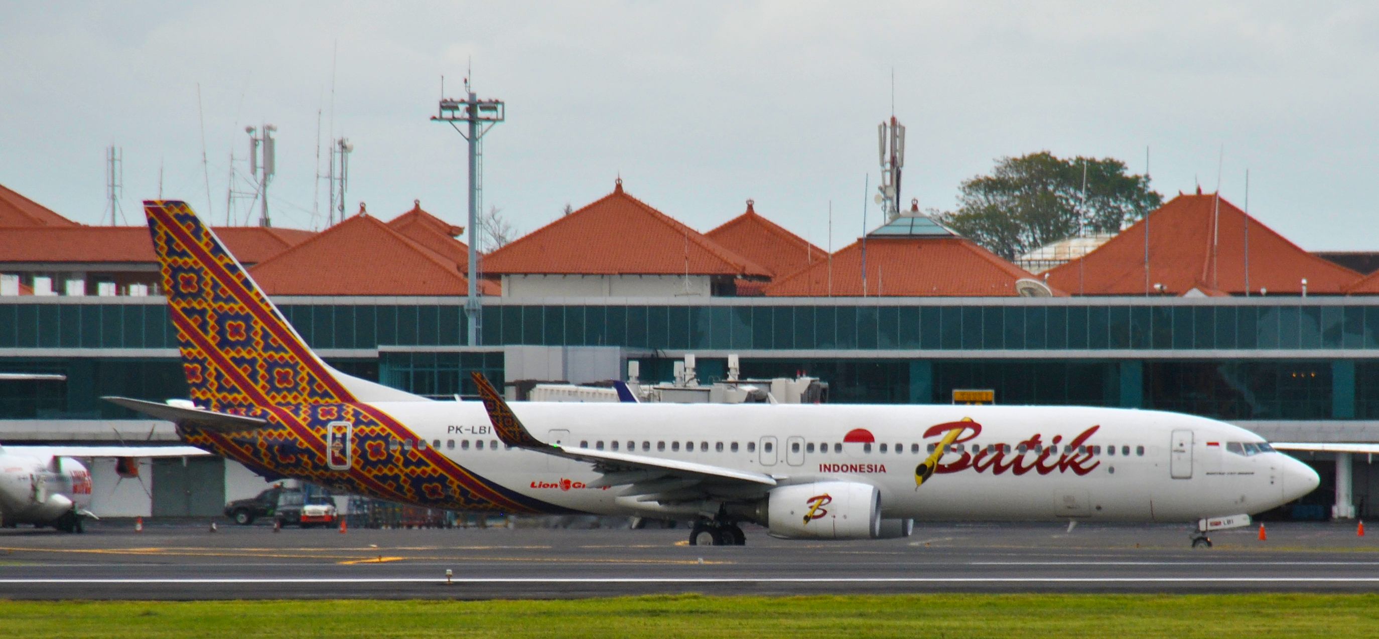 Batik Air Boeing 737-900ER (PK-LBI) at Ngurah Rai Airport, Tuban, Badung Regency, Bali, Indonesia.